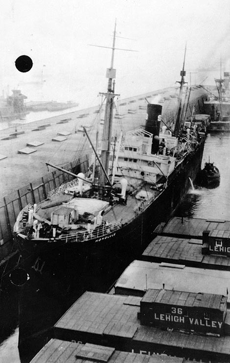 Cargo ship SS Honolulu, under United States Shipping Board control prior to her US Navy service as USS Honolulu (ID-1843).